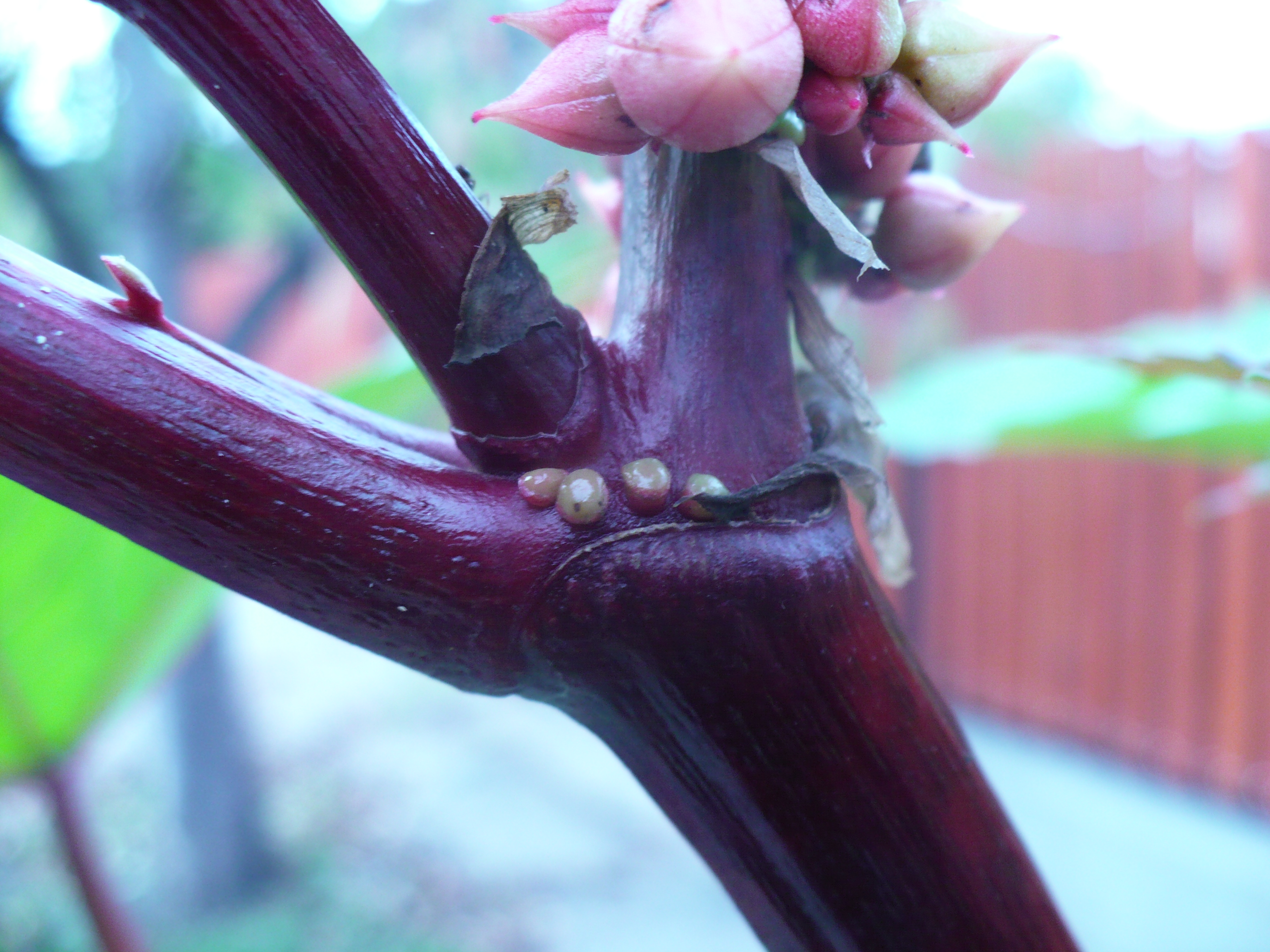 Stem node of ricinus. Some flowers and some whitish globular thing on the stem node are also visible